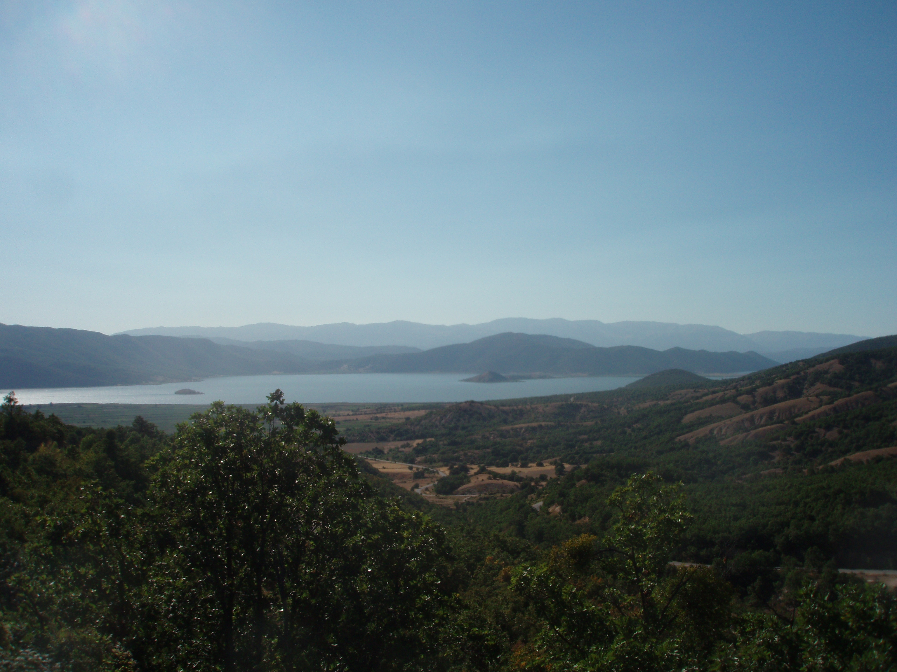 Lesser Prespa Lake seen from National Road 15 (Greece), Section Kotas-Agios Germanos (mountain pass). The island of Agios Achillios is visible. On the left side the lake extends into Albania.